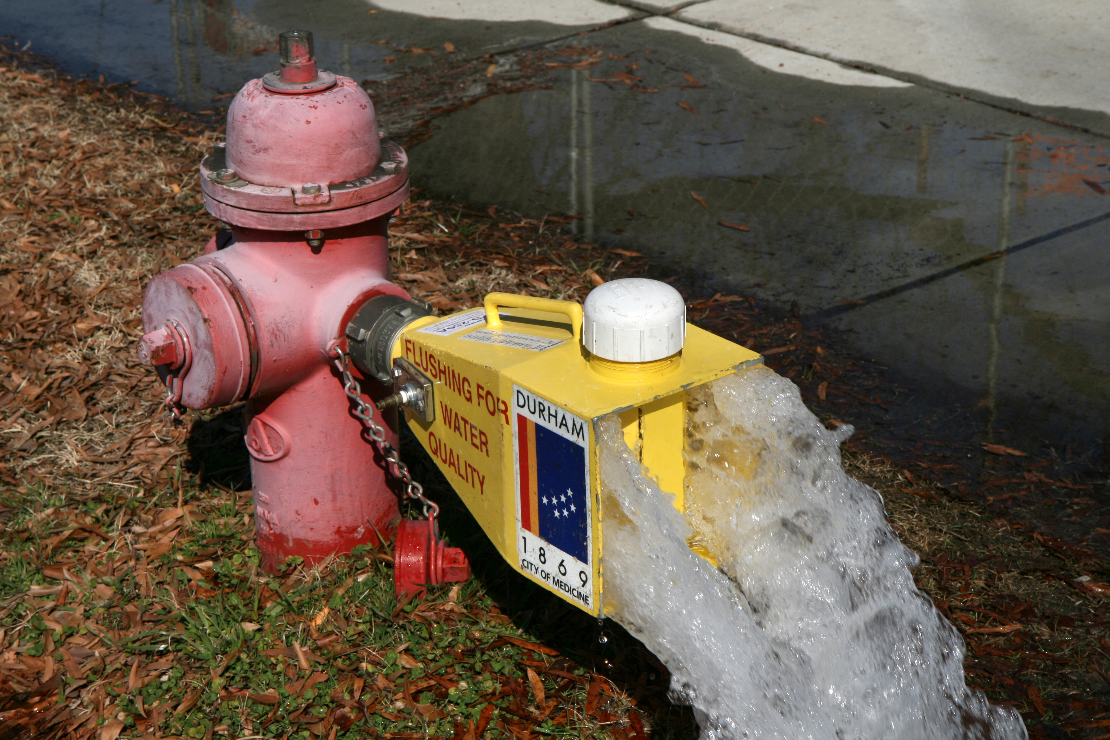 A fire hydrant flushing water via a diffuser in front of the Durham School of the Arts on West Morgan Street in Durham, North Carolina.